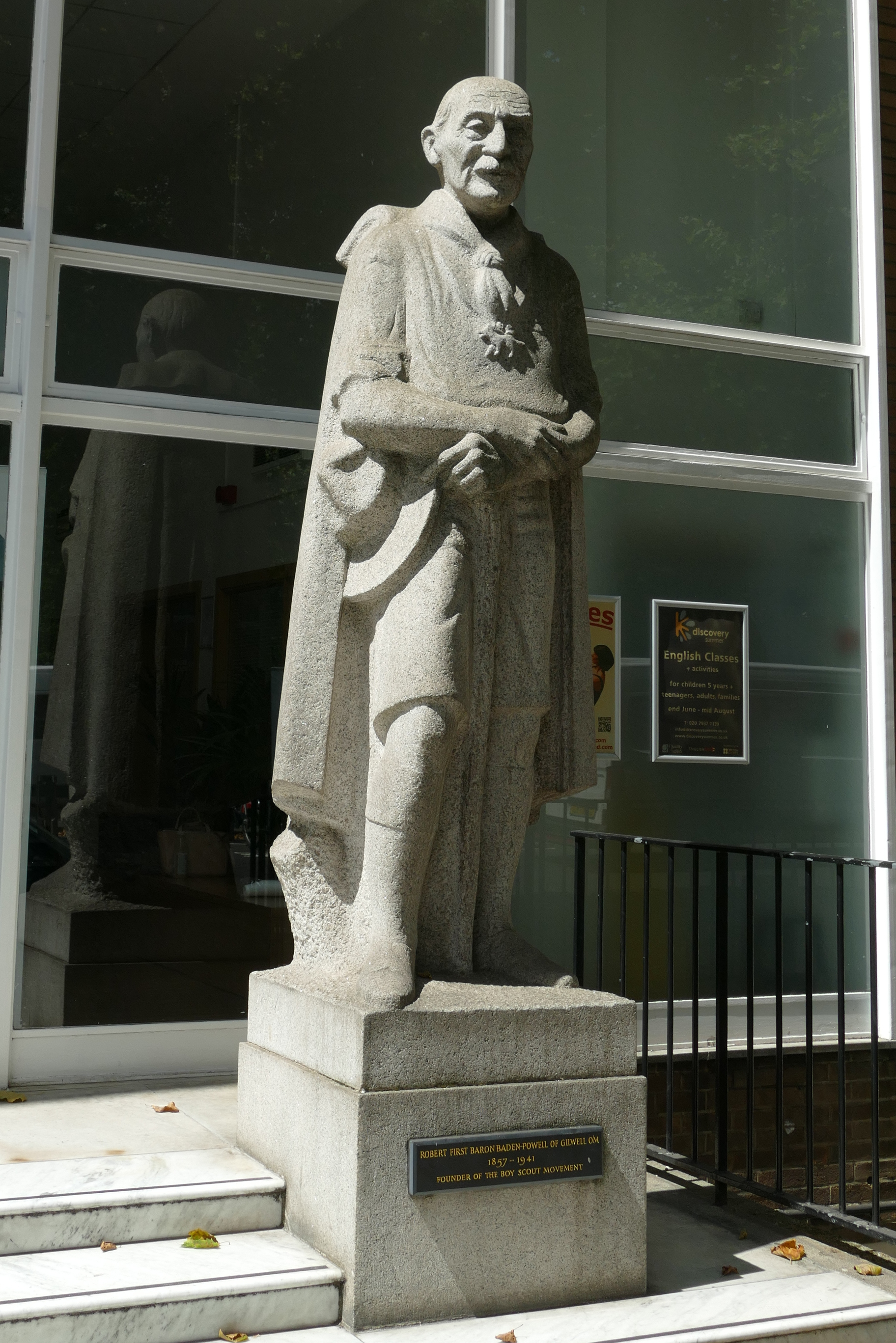 Statue of Robert Baden-Powell